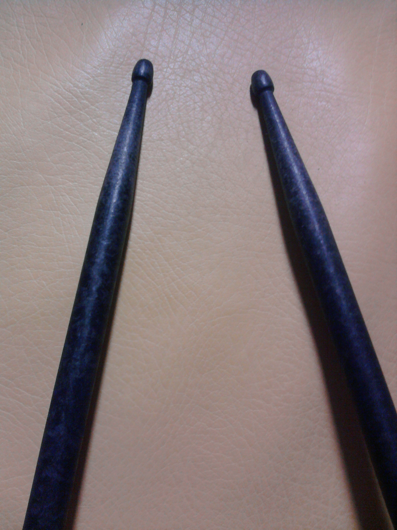 a pair of black drum sticks.